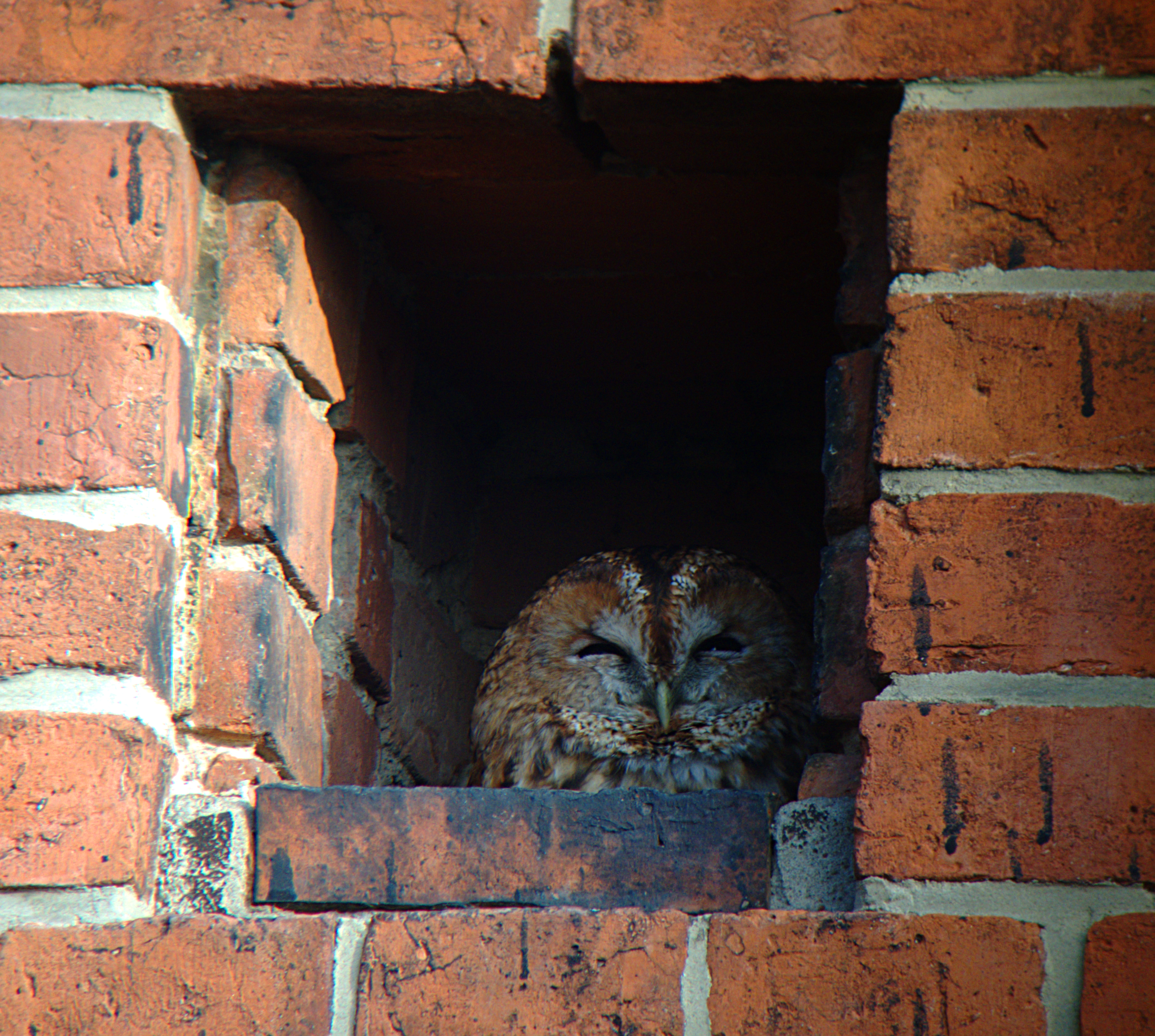 Closeup of a tawny owl sitting in alcove in the Rosenthal Protestant church cemetery chapel, Berlin